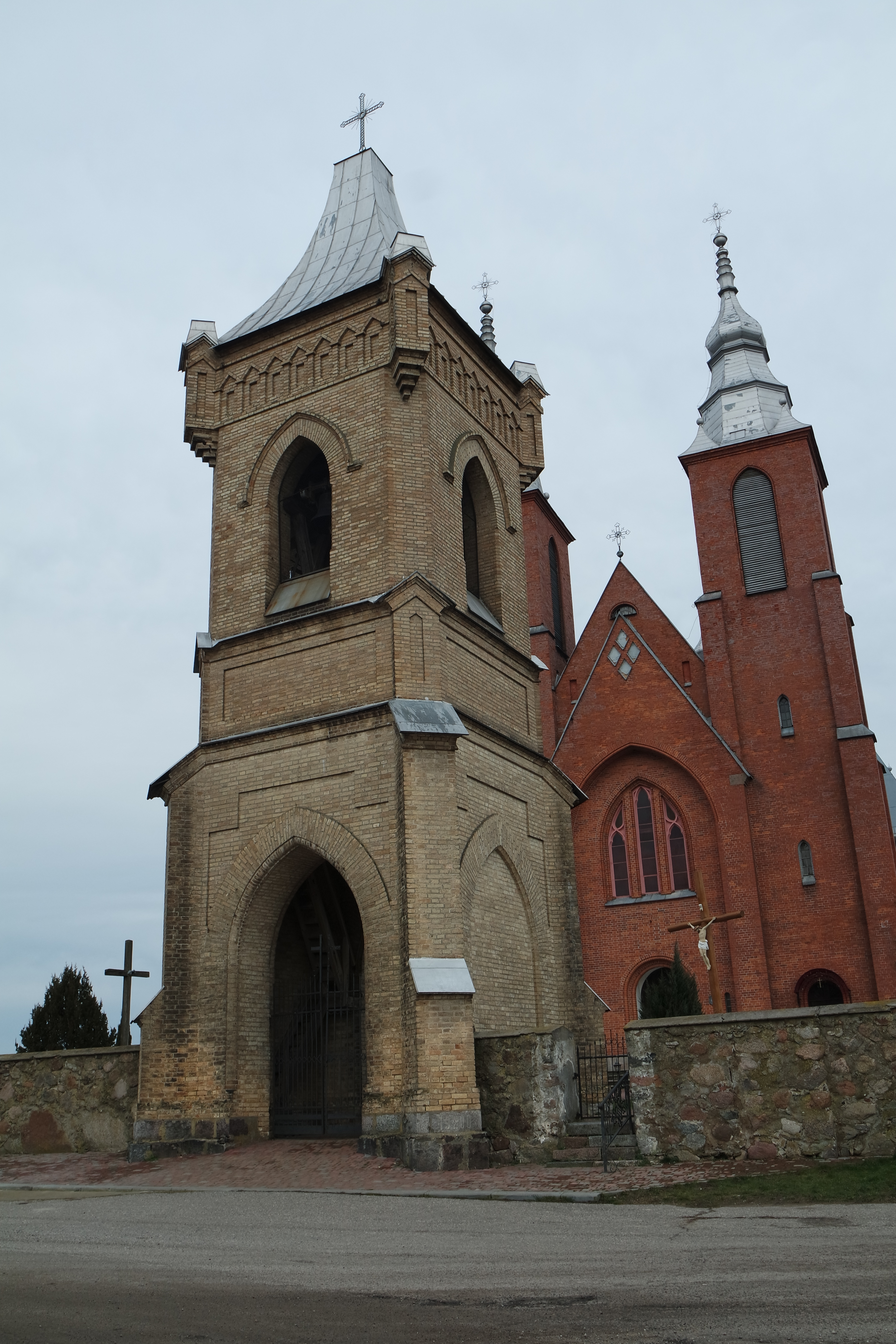 Bell tower. Church of Saint John the Baptist. Mscibava, Belarus. Беларуская (тарашкевіца): Званіца. Касьцёл Сьвятога Яна Хрысьціцеля. Мсьцібаў, Беларусь.